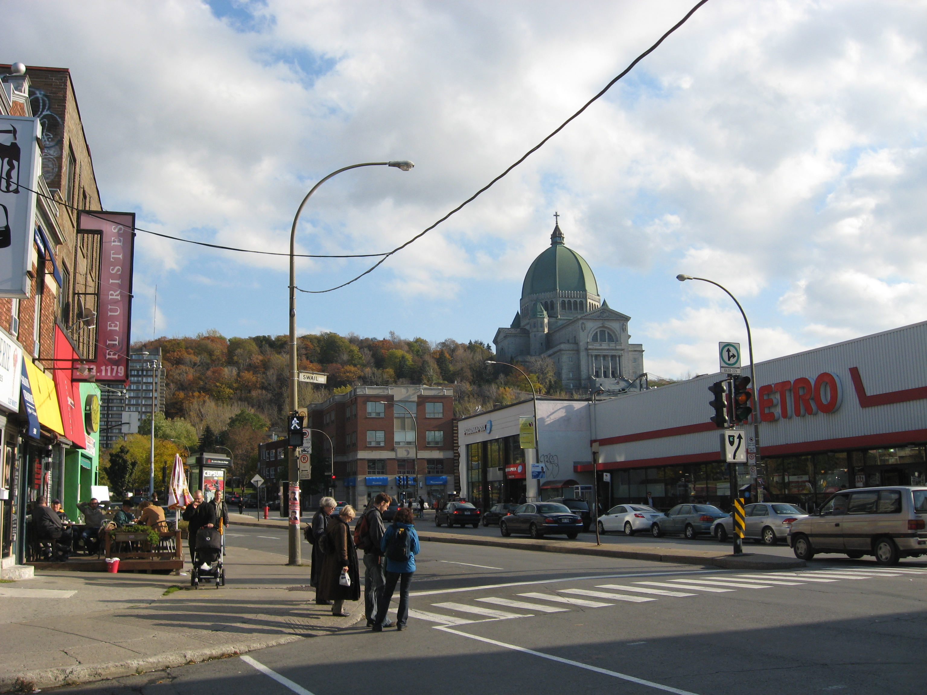 Côte-des-Neiges road with a view on the St. Joseph Oratory in Montreal, Quebec